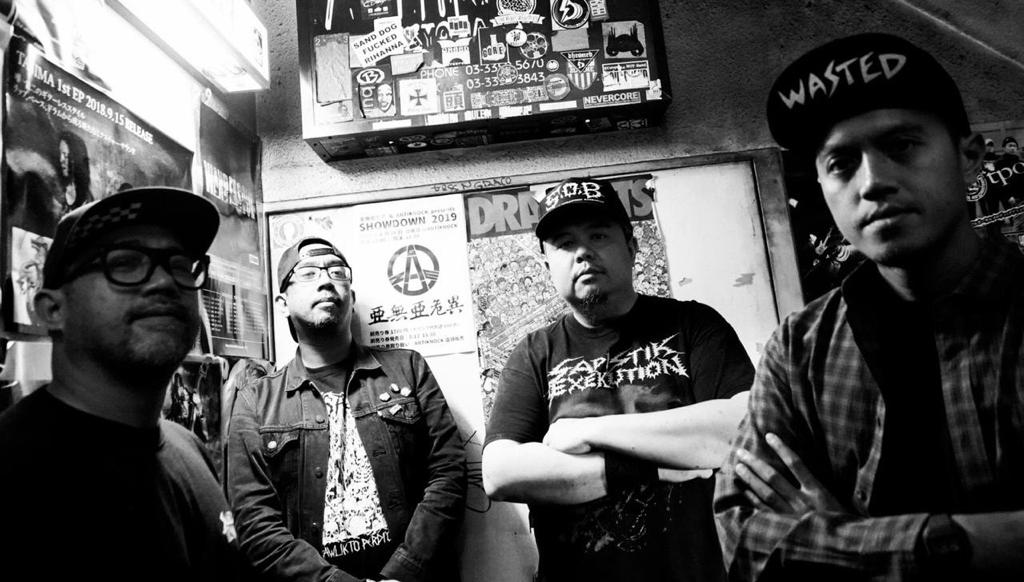 Photo of the Indonesian hard rock band Seringai.